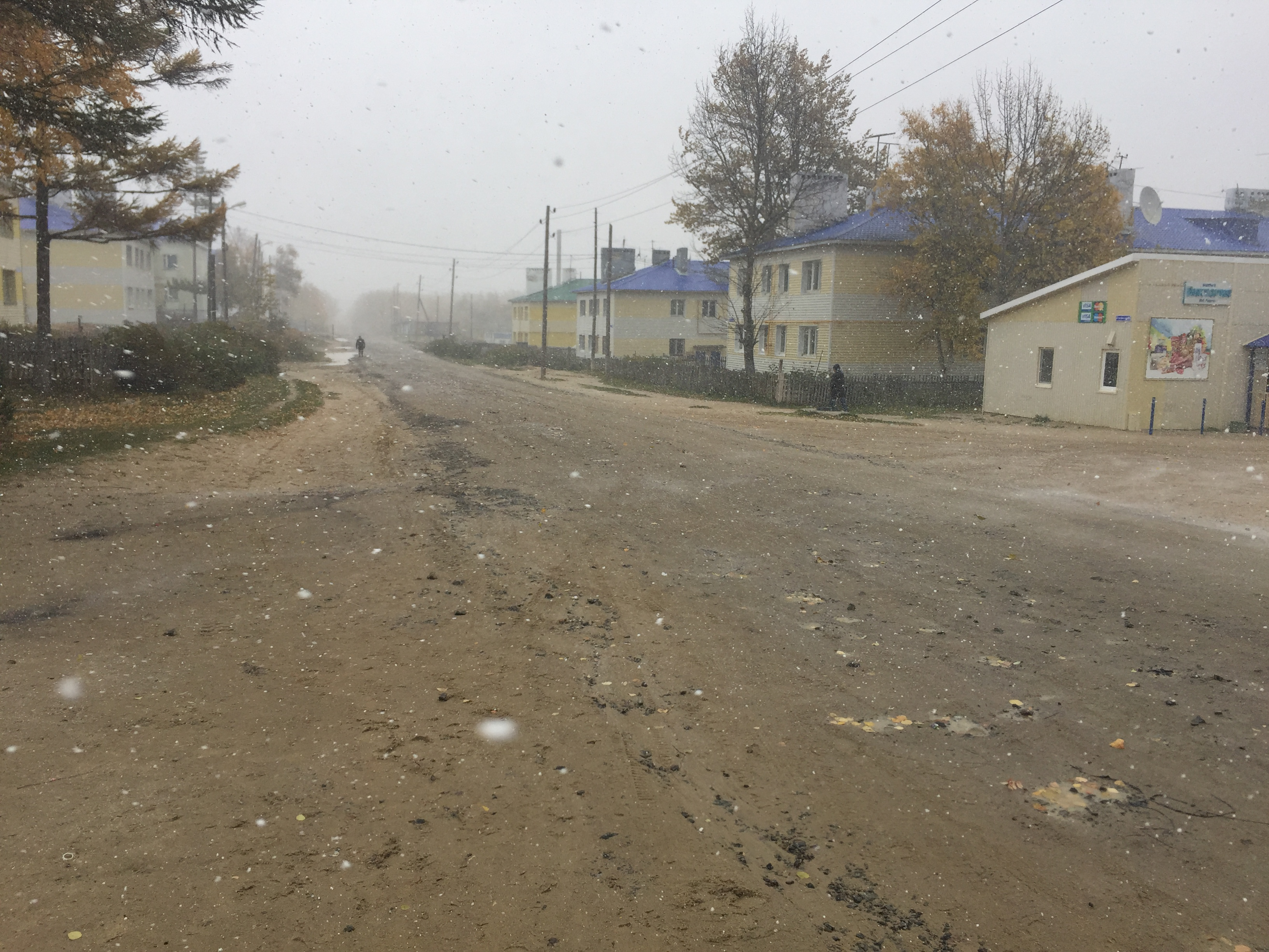 The first snow in Nekrasovka. Sakhalin Oblast.